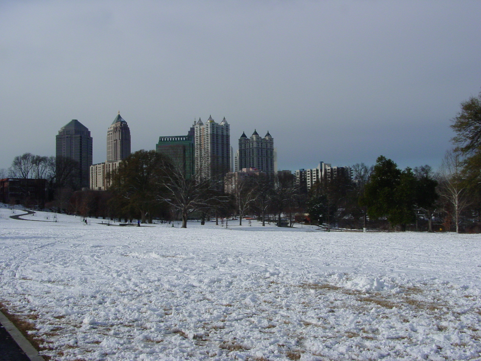 A wintry snow scene in Piedmont Park in Atlanta, January 2003.